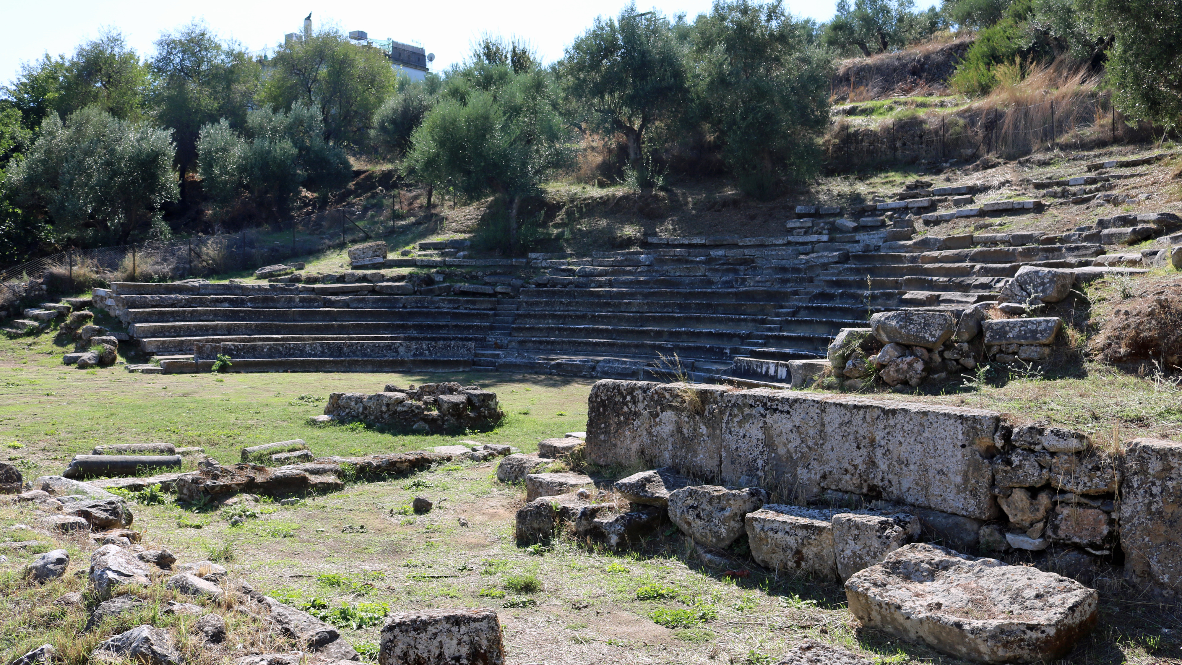 Ancient roman theatre in Gythio, Laconia Prefecture, Region Peloponnese, Greek